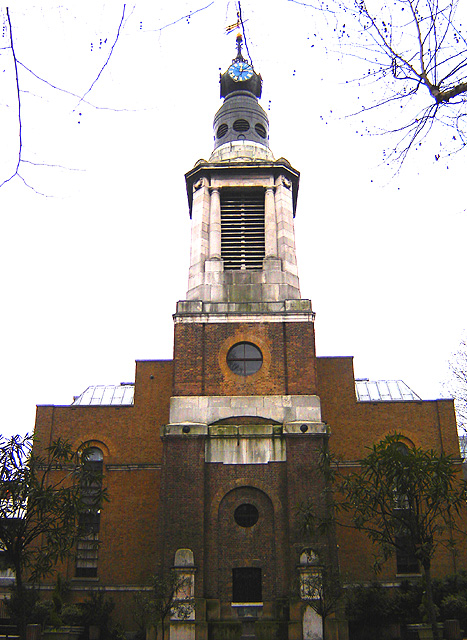 St Anne's Church, Soho, Westminster, London. 14 January 2006. Photographer: Fin Fahey